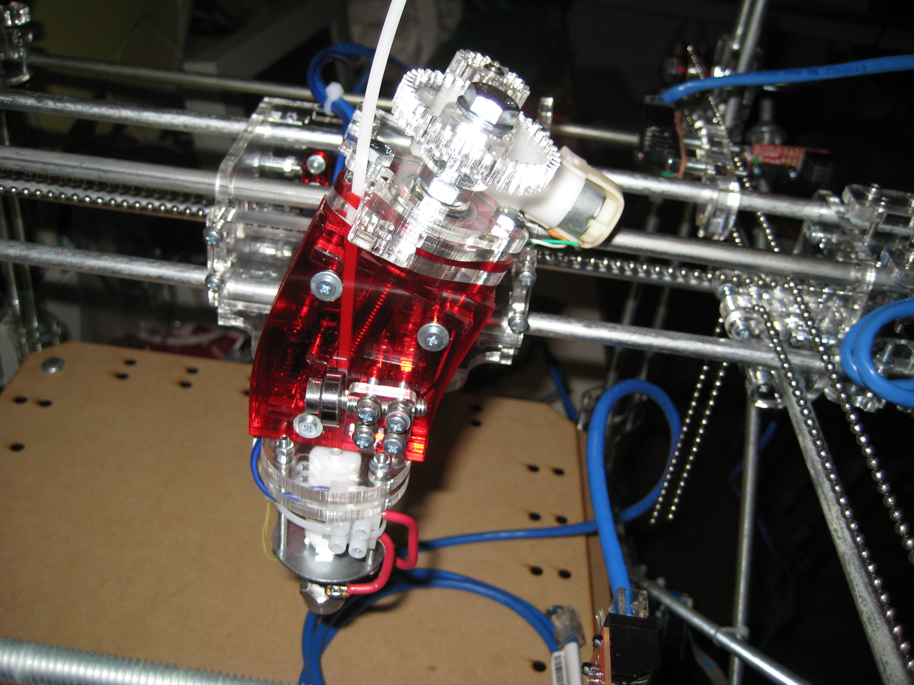 Ponoko's RepRap Extruder